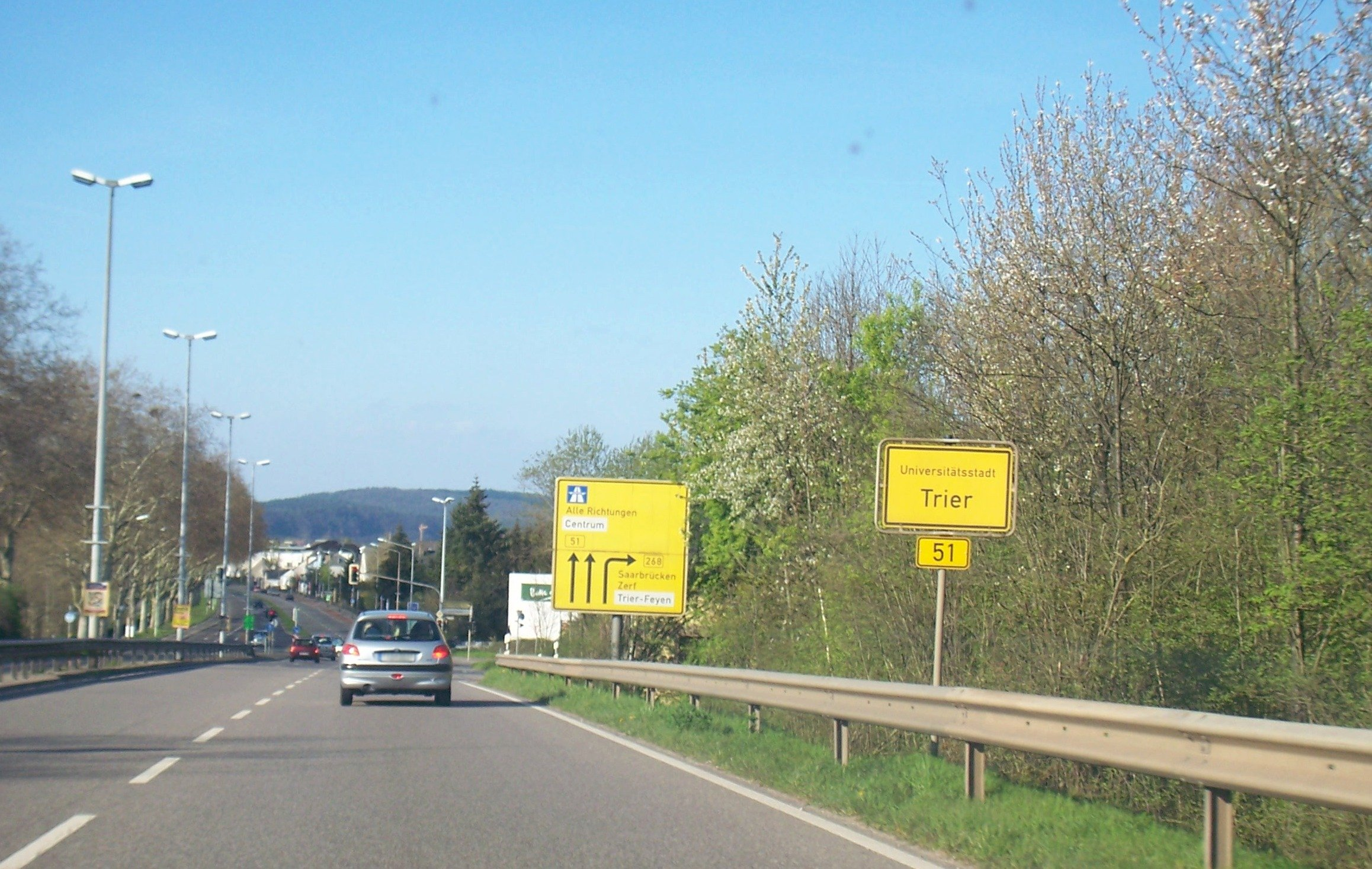 German federal highway B51 entering Trier from South-West, Rhineland-Palatinate, Germany